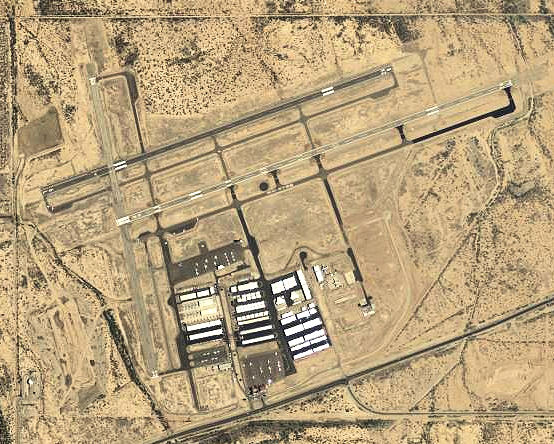 USGS digital orthophoto of Ryan Airfield in Arizona